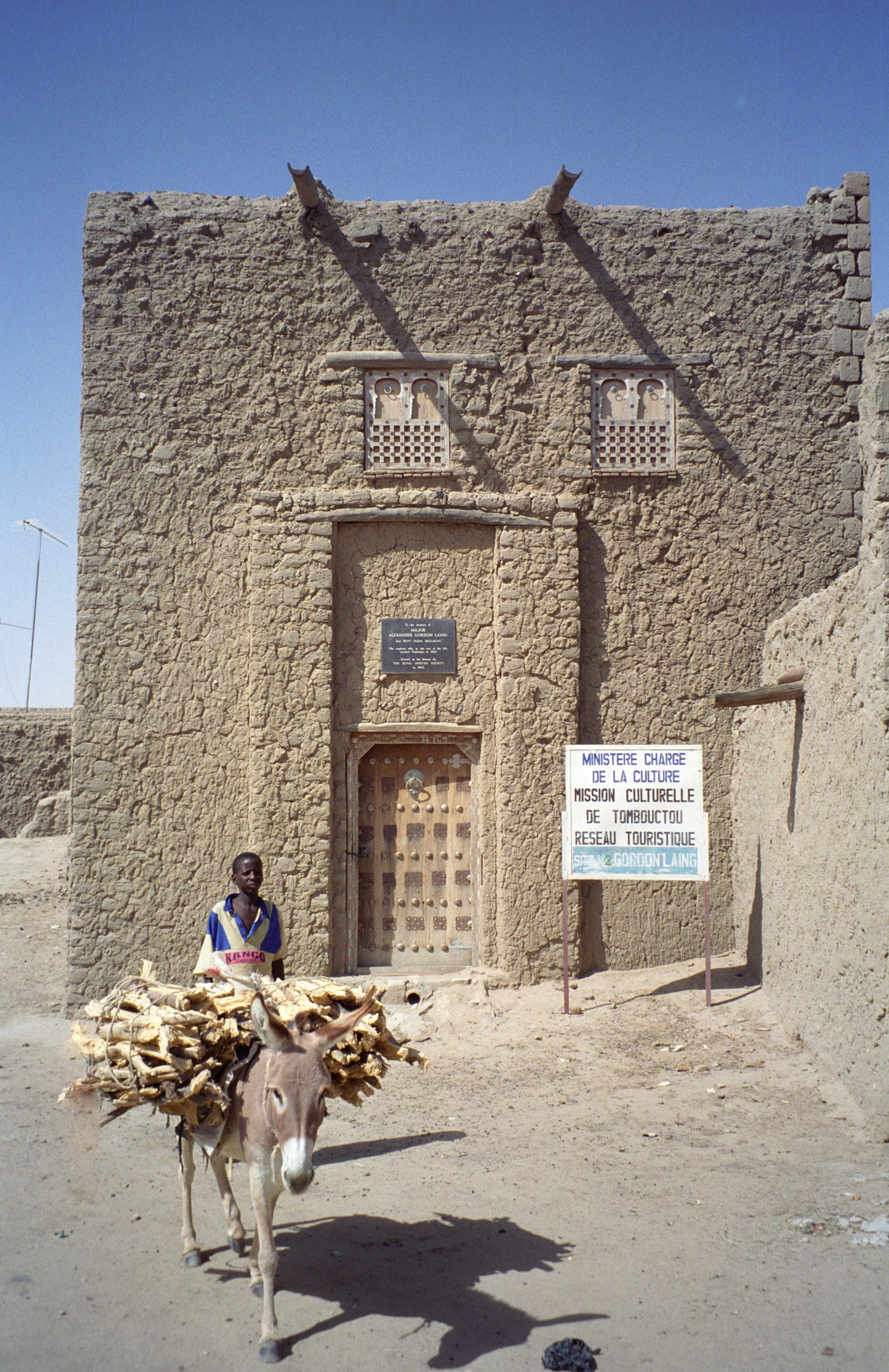 Gordon Laing House, Timbuktu. Timbuktu was so remote and hard to get to, it was once of the last cities reached by European explorers. In the 19th century, for the first time, a handful of Europeans made it there and stayed for a while. This is where Gordon Laing stayed after he arrived in Timbuktu. Laing, a Scot, is usually credited as being the first European to make it to the city, but never returned as he was killed on his way back to Europe. The plaque over the door reads: To the memory of Major Alexander Gordon Laing 2nd. West India Regiment The explorer who, at the cost of his life, reached Timbuktu in 1826. Erected in his honour by The Royal African Society in 1963.